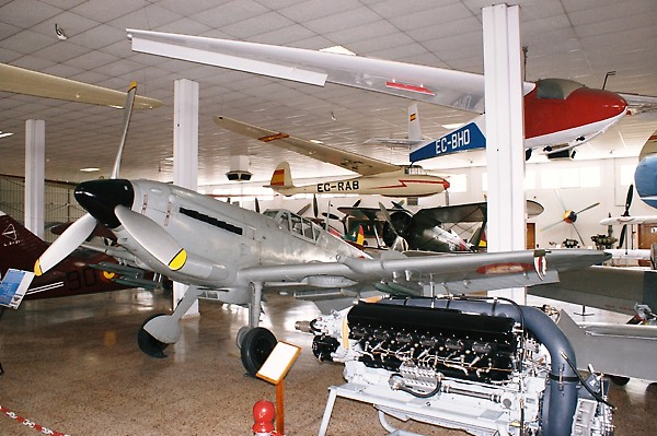 Another view of Hispano HA.1112 K-1L Buchon, 4/10.